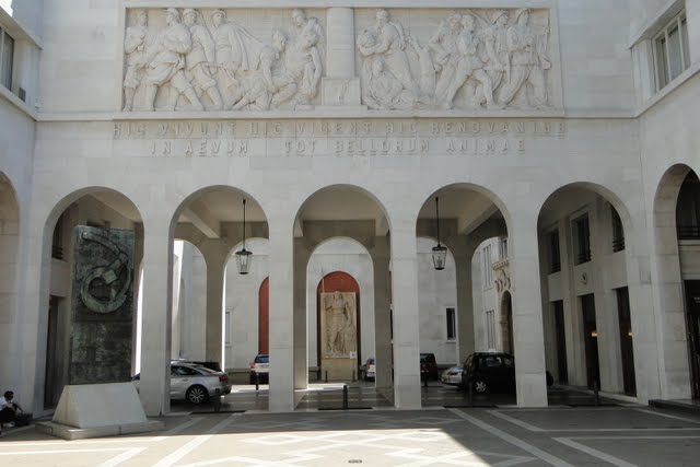 University courtyard, Padua